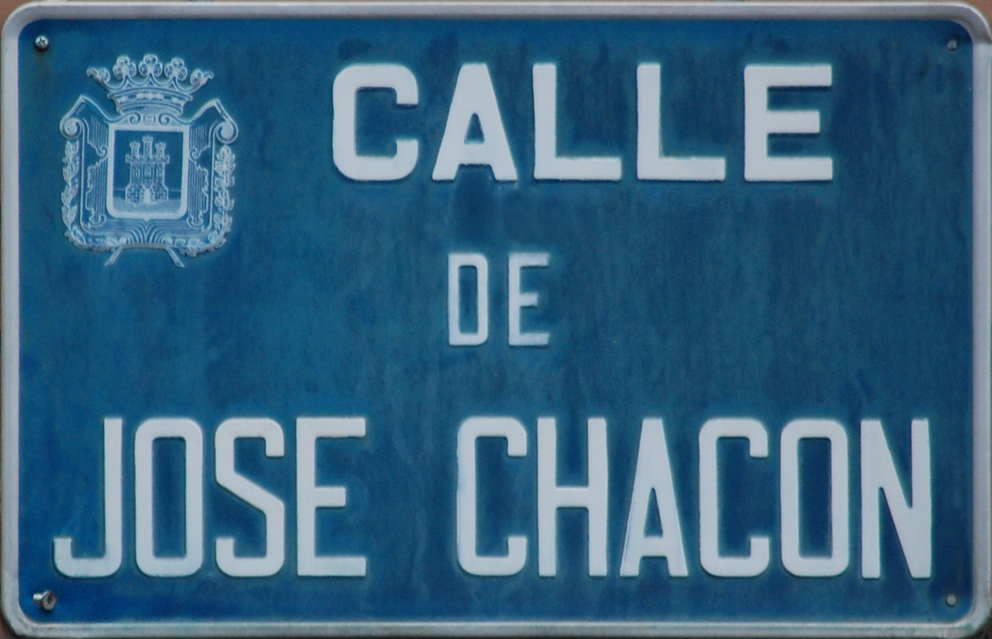 Street sign dedicated to José Chacón, in Alcalá de Henares (Community of Madrid - Spain).